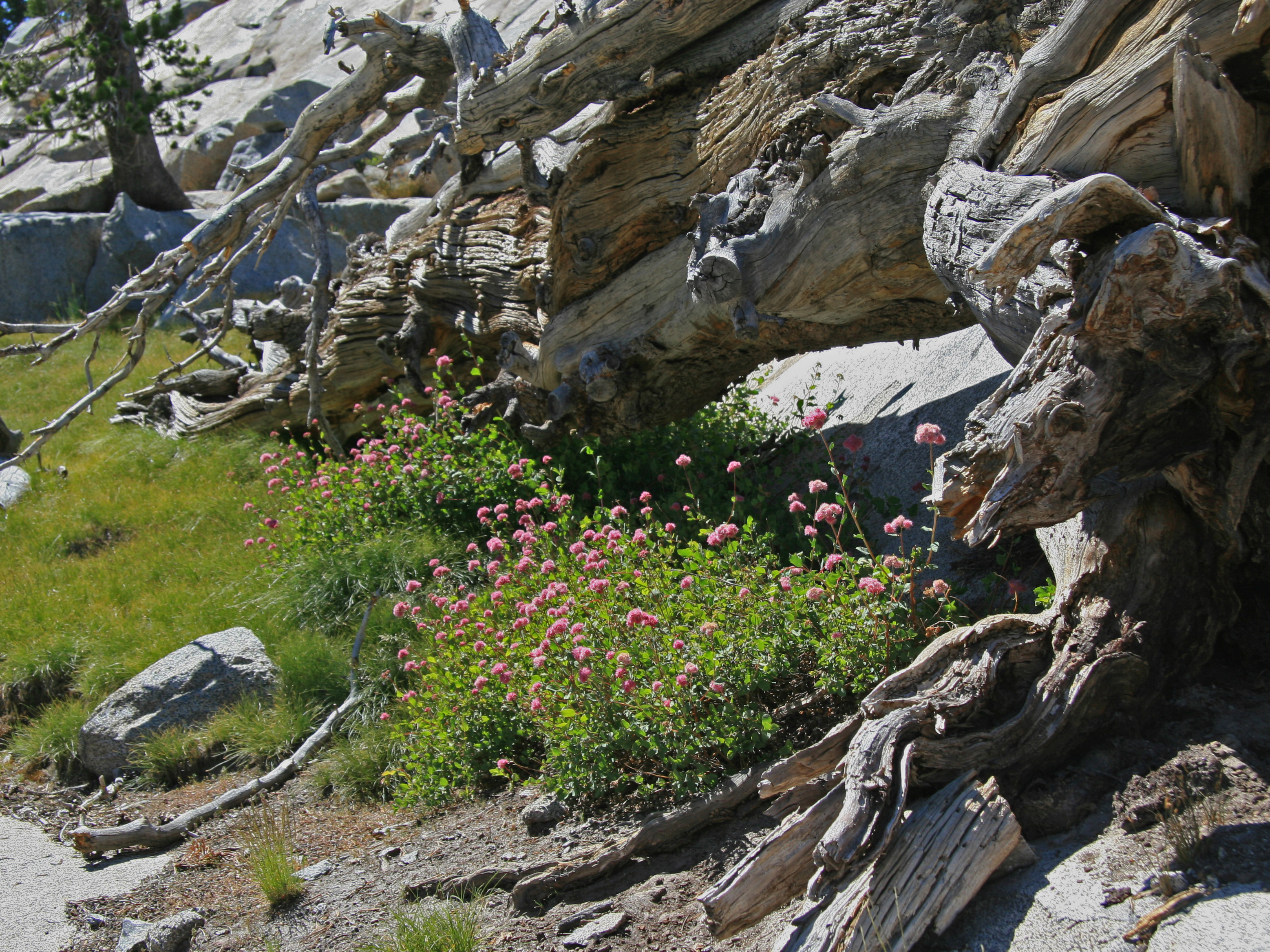 Mountain spiraea (Spiraea densiflora), growing next to log and rocks. Along path up to Marie Lakes, N of Island Pass, Ansel Adams Wilderness, Sierra Nevada, California.